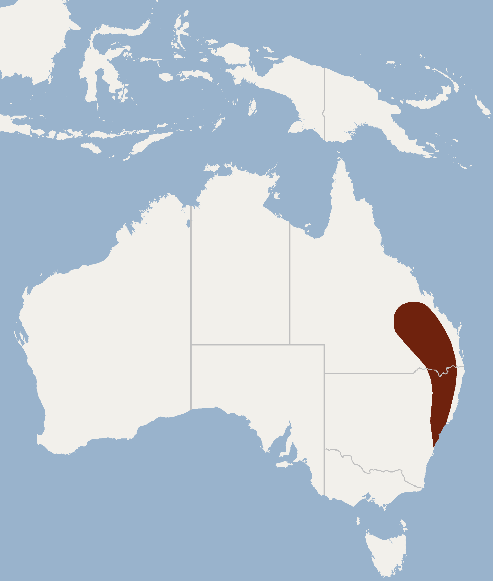 According to Menkhorst & Knight, 2001